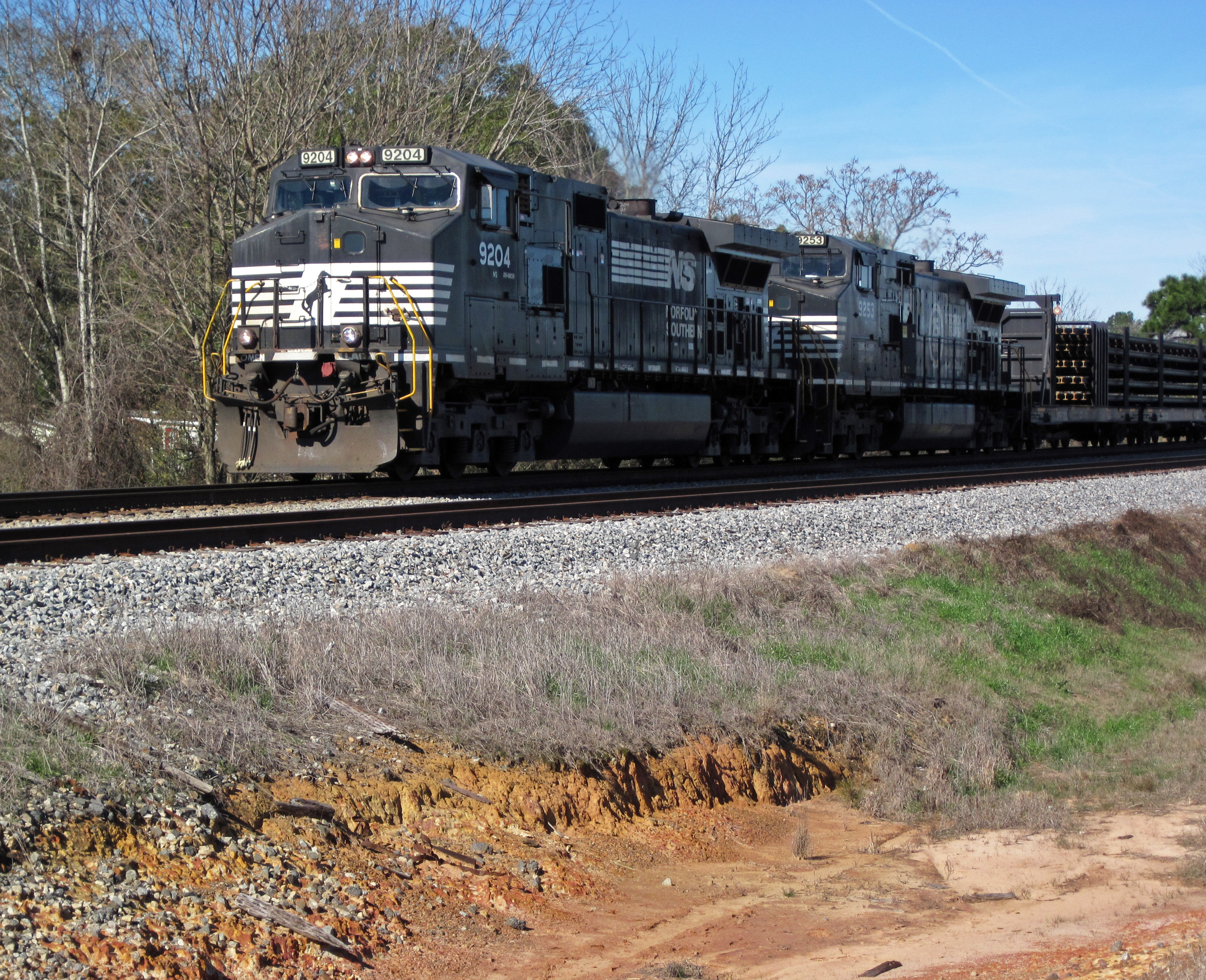 This is a south-bound Norfolk Southern Railway maintenance-of-way (MOW) train near Inaha, Georgia, USA, seen on 19 December 2013. The train is powered by Norfolk Southern # 9204 and Norfolk Southern # 9253. 9204 is a General Electric CW40-9 with a standard black and white Norfolk Southern paint scheme - it was built in April 1998. 9253 is also a CW40-9. It has a Norfolk Southern Operation Lifesaver 25th anniversary paint scheme. This particular MOW train was carrying welded rails on roller cars. The scrappy outcrop at the bottom of the photo is a ditch cut with an exposure of siliciclastic sediments. This is the Citronelle Formation, a Pliocene-aged unit of nonindurated to poorly indurated, dominantly deltaic, siliciclastic sedimentary rocks. It is widely distributed in the Gulf of Mexico coastal plain areas of Georgia, Florida, Alabama, Mississippi, Louisiana, and Texas. Locality: north of Inaha, southern Turner County, southern Georgia, USA